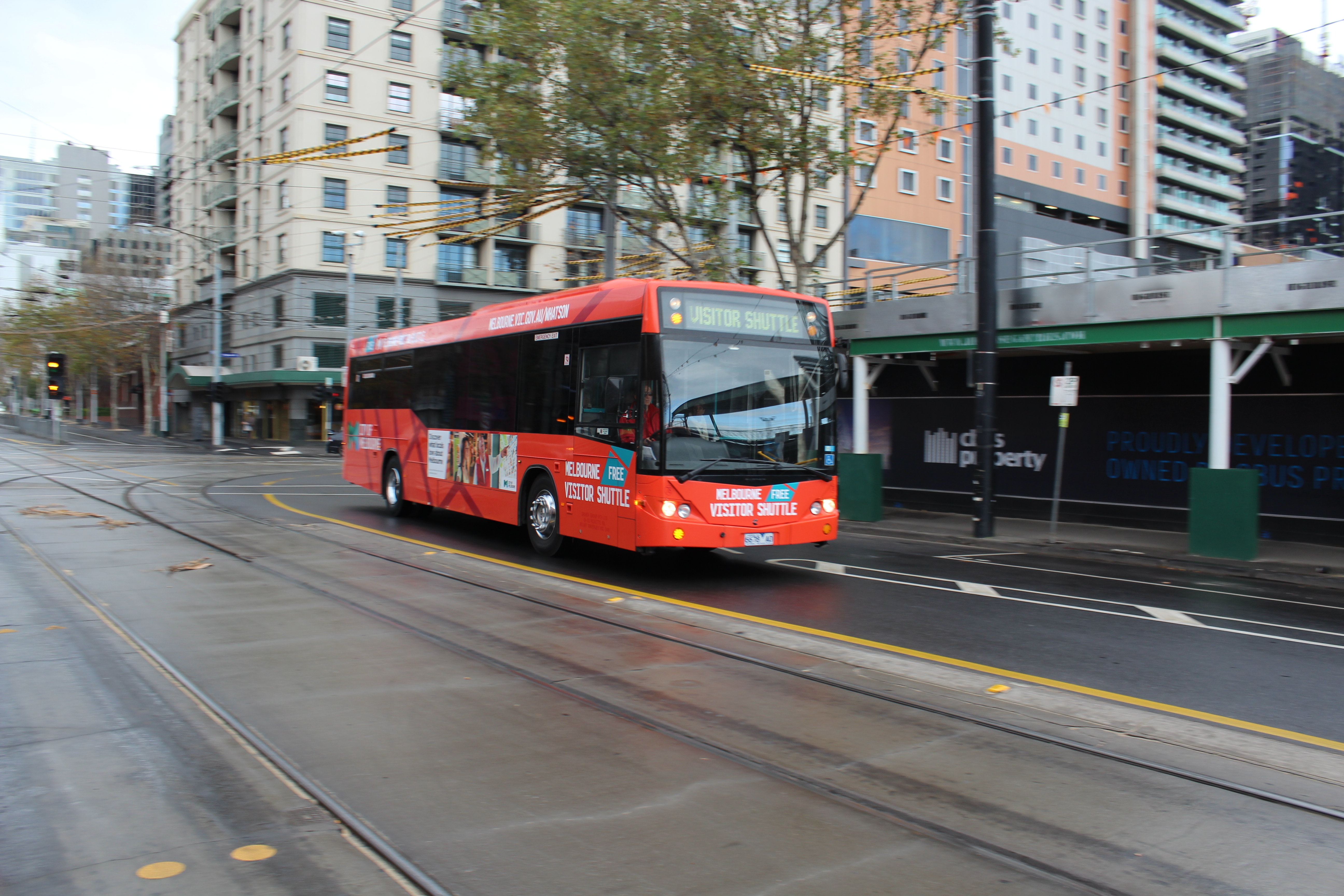 Melbourne Visitor Shuttle (6678AO) in La Trobe St, 2013.